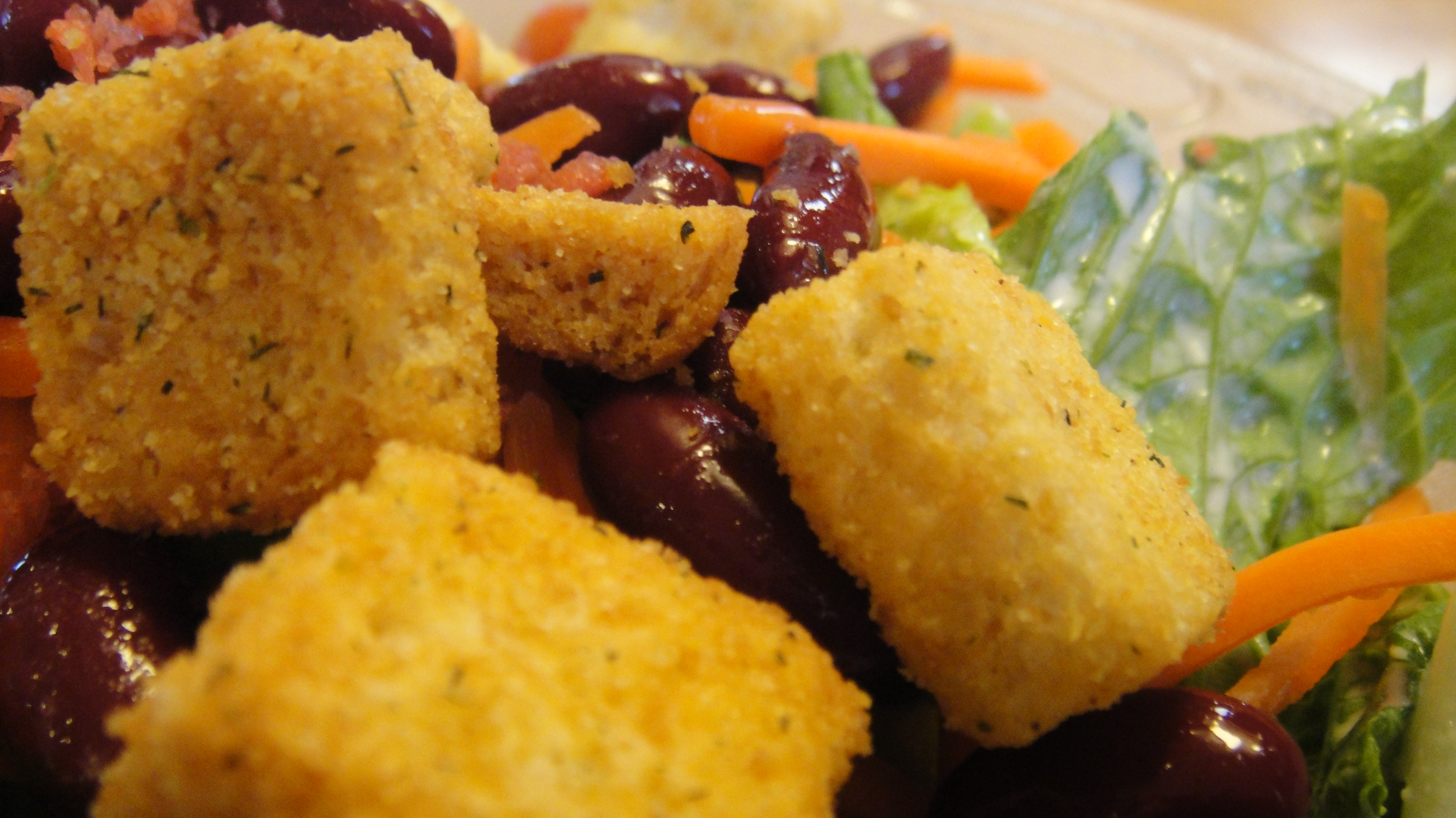 Description: - Author: Josh Truelson [cooljuno411] Date Created: Wednesday, May 6, 2009 [2009-05-06] Location: - Event: Going to Hometown Buffet with my friend Rissy.